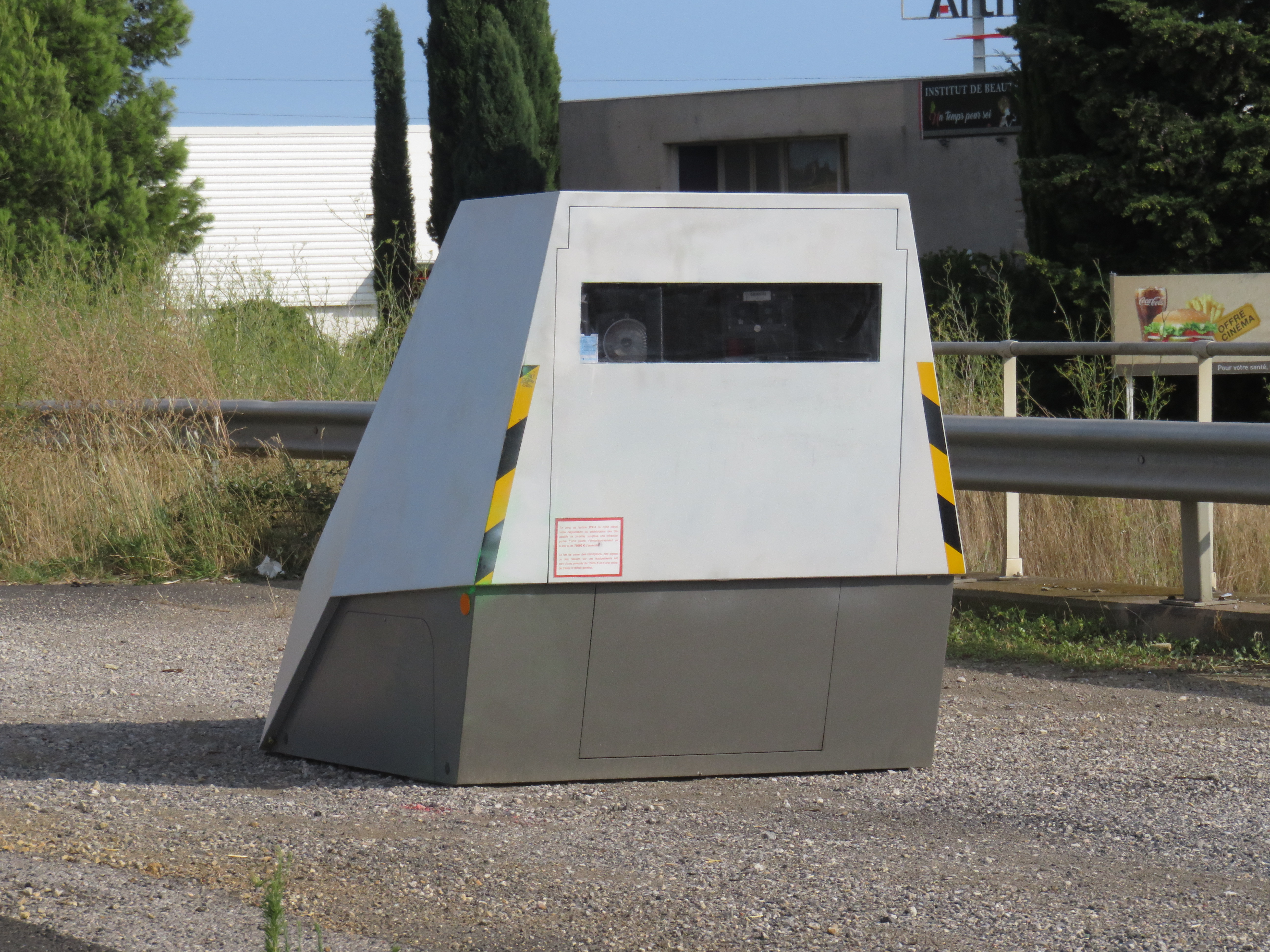 An speed camera establish in the D612 (Béziers, France) on August 24, 2018.